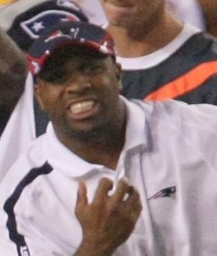 Photo of Harold Nash, at New England Patriots at Washington Redskins 08/28/09